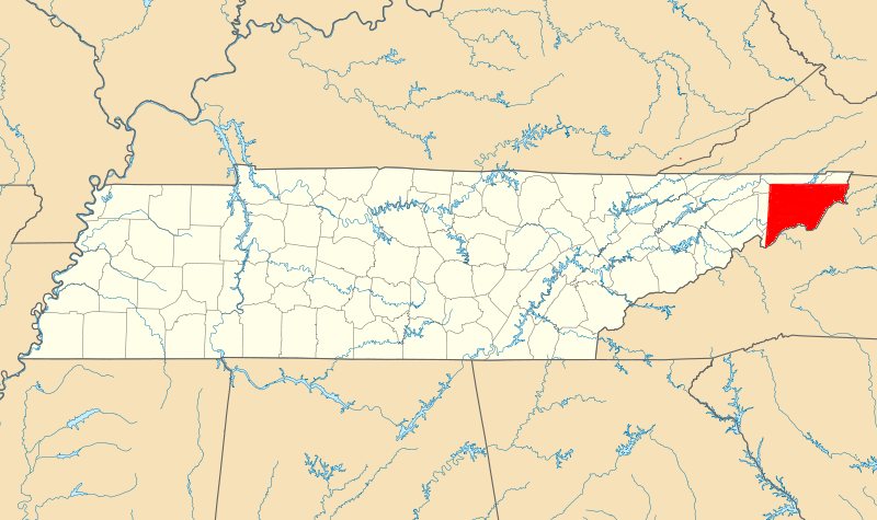 The map depicts the area in East Tennessee bought by Charles Robertson from the Cherokees on behalf of the Watauga settlers The area is bounded by the Donaldson survey line on the north, the North Carolina border on the east and the Nolichucky/Watauga river watershed on the west